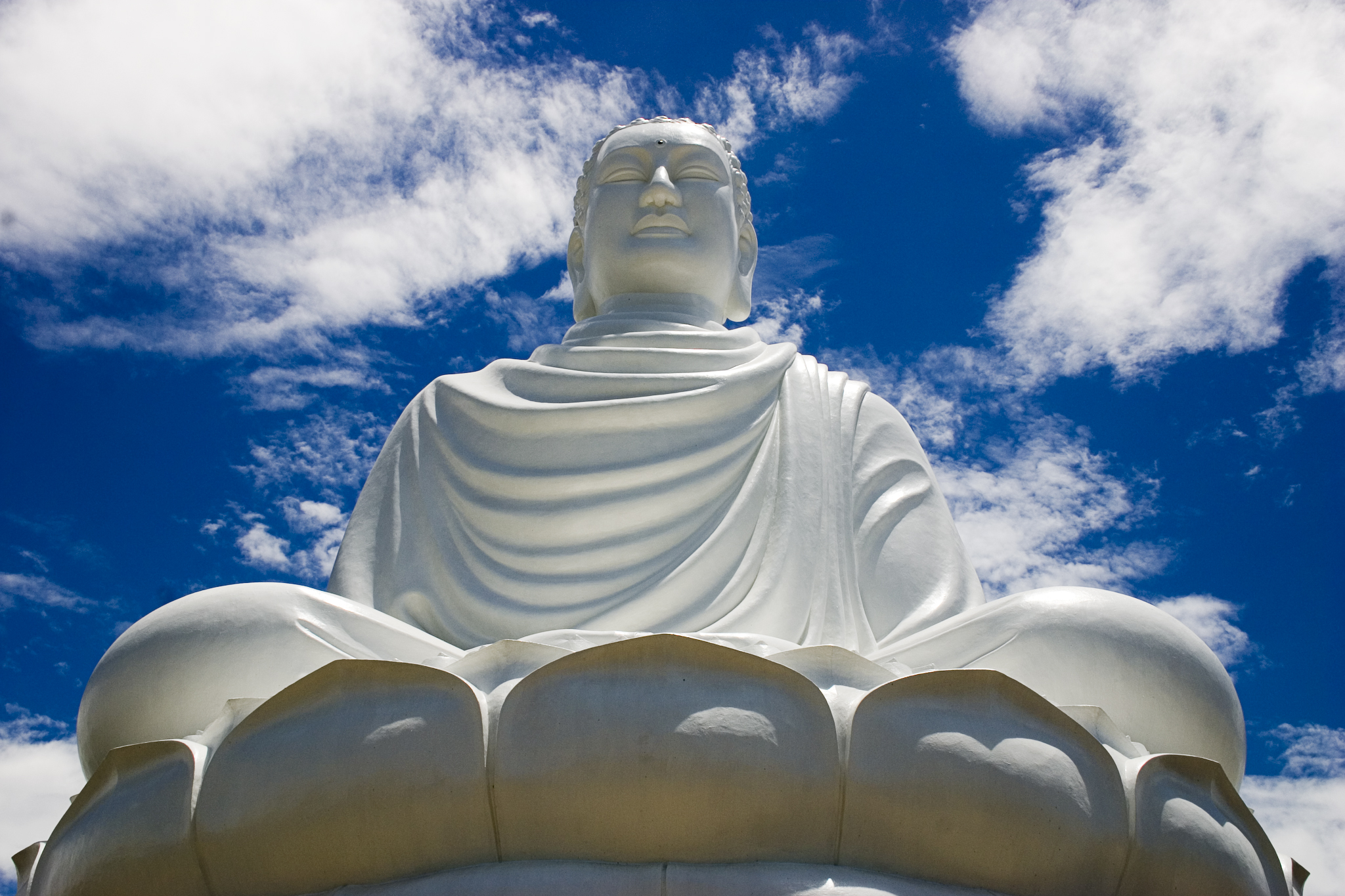 The great Buddha statue in Nha Trang, Vietnam.